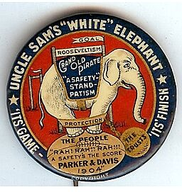 campaign button for Democrats, US 1904; attacks Republicans